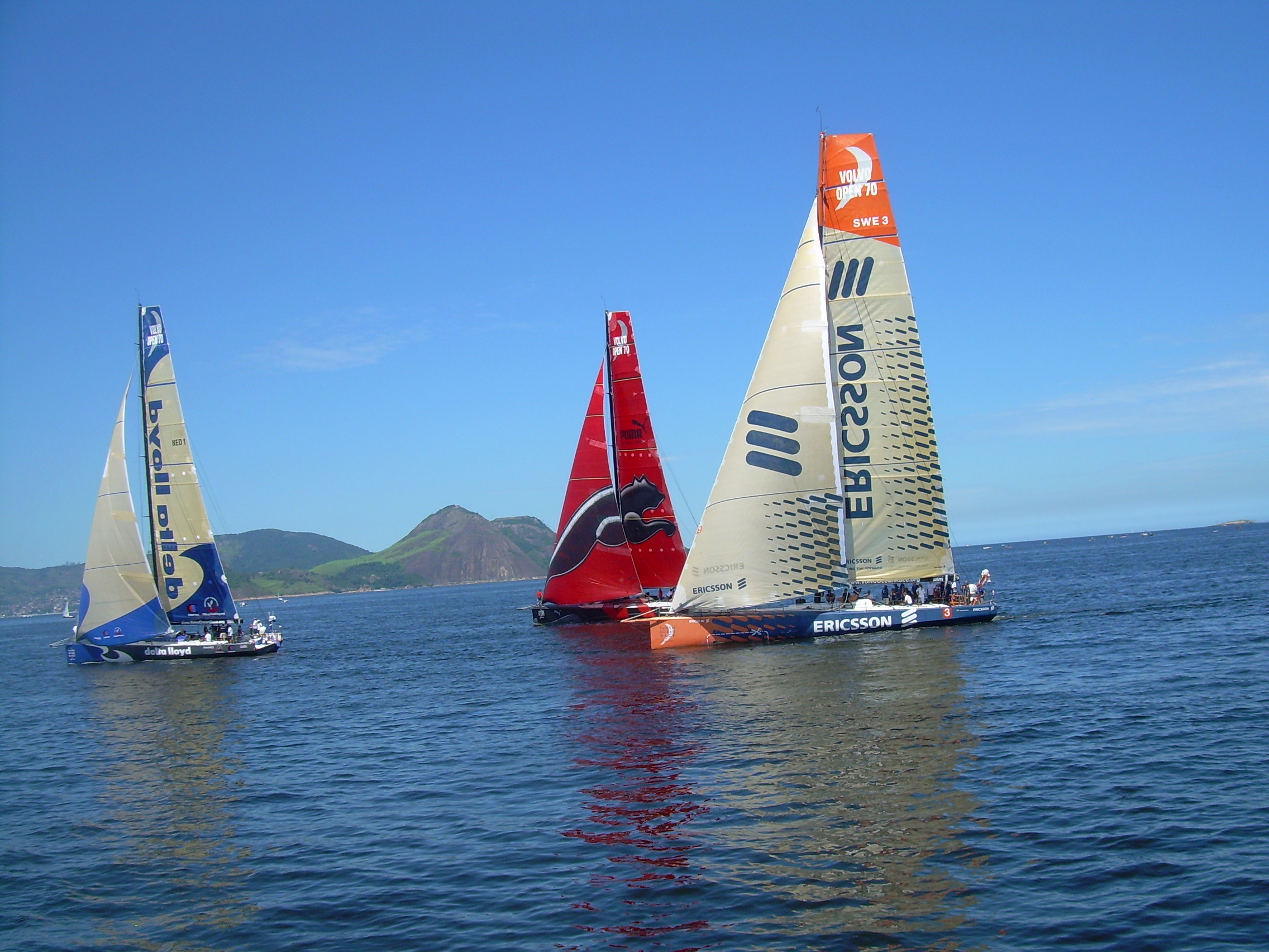 Ericsson 4 in Río de Janeiro during the 2008-09 edition of the Volvo Ocean Race.